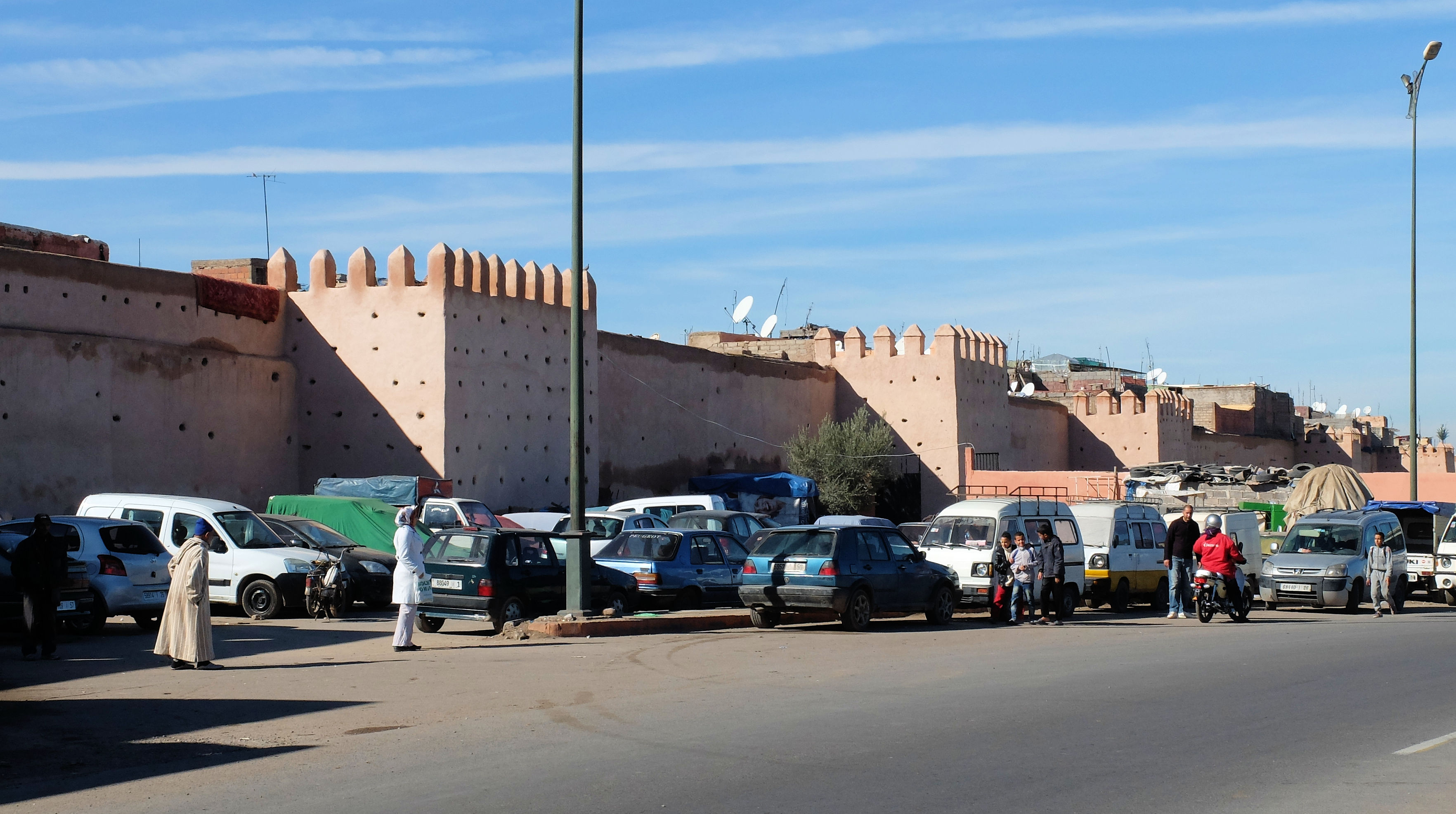 Eastern walls of Marrakesh, north of Bab Debbagh.